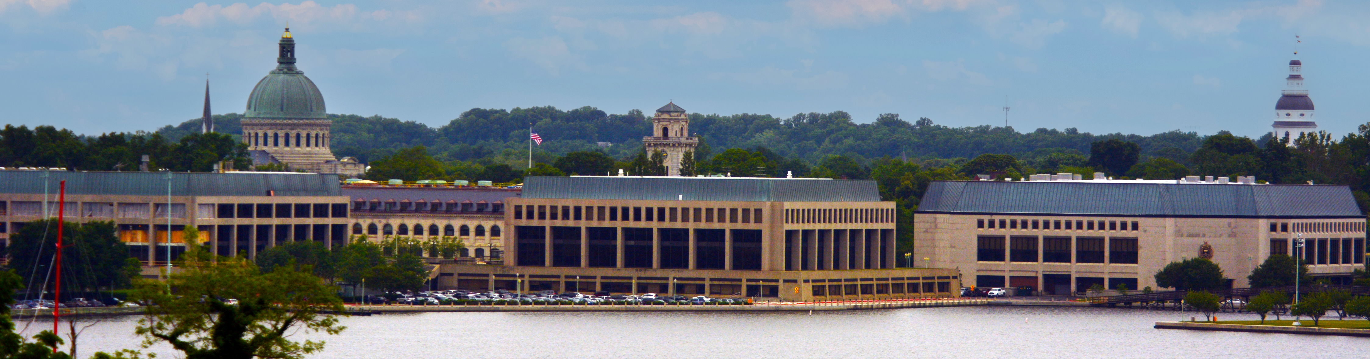 United States Naval Academy in Annapolis MD by D Ramey Logan